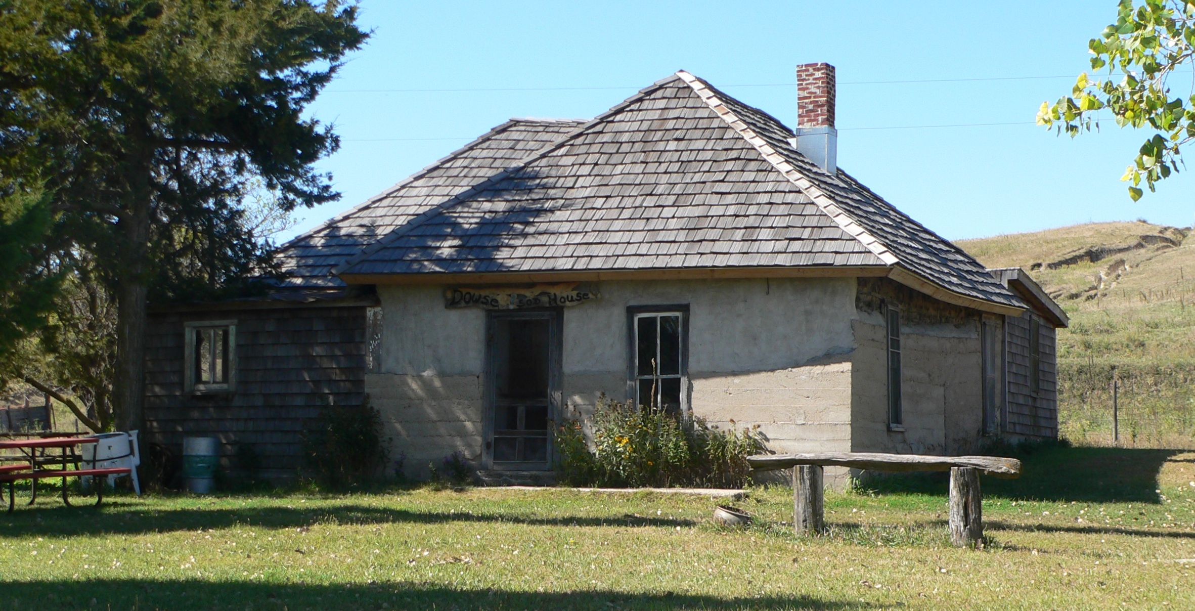 William R. Dowse House, located southwest of Comstock in Custer County, Nebraska; seen from the northeast. The sod house was built in 1900, and is listed in the National Register of Historic Places. It is now open as a museum.